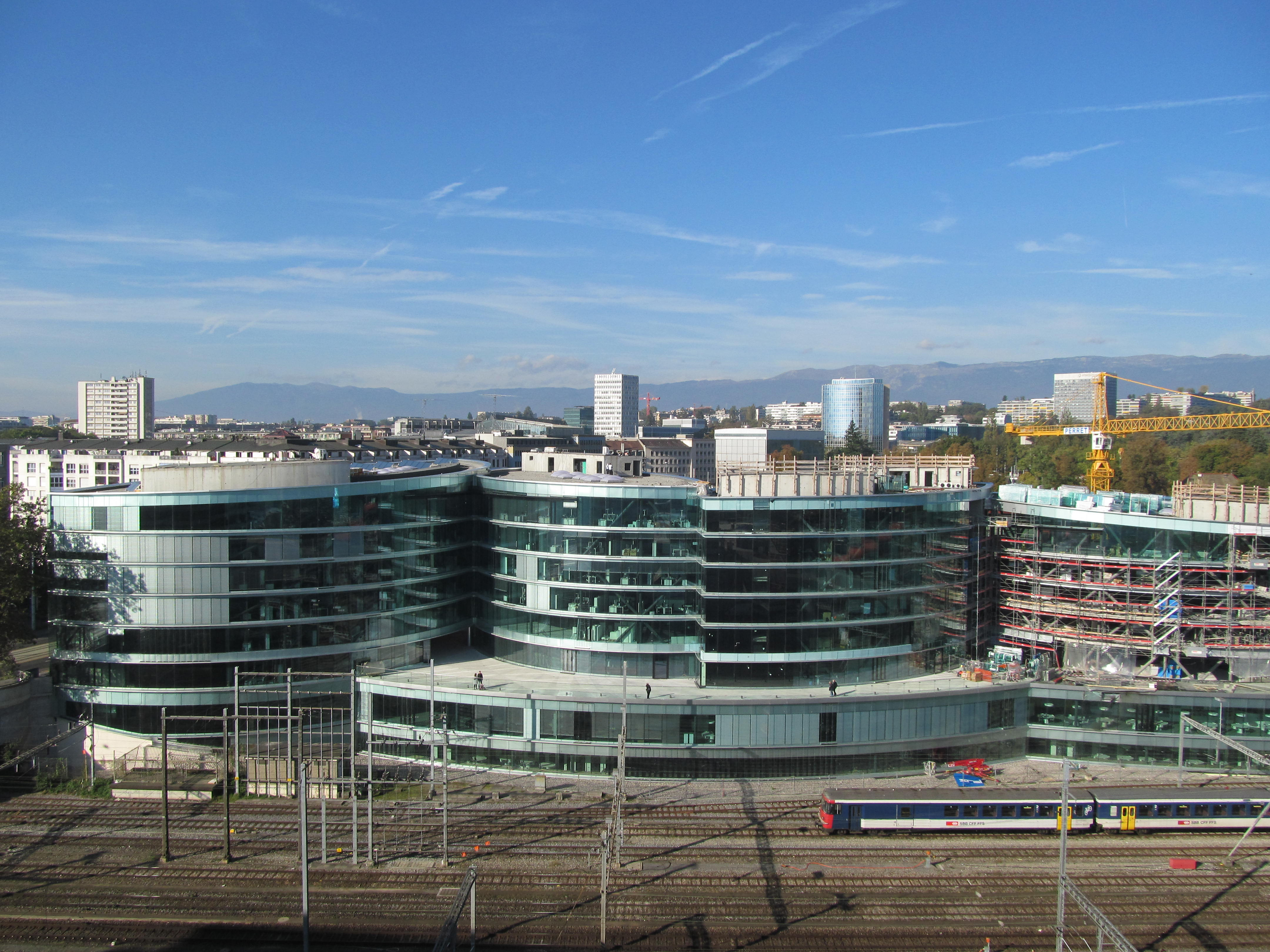 First two petals of the Maison de la paix in Geneva (Switzerland). These two petals opened September 2013.